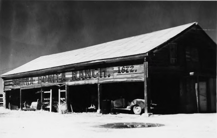 Sierra, Bonita Ranch. Original barn west of ranch house. The sign was added on the 100th anniversary of the ranch in 1972. (looking NW) 3/18/75 A.Guhl #15